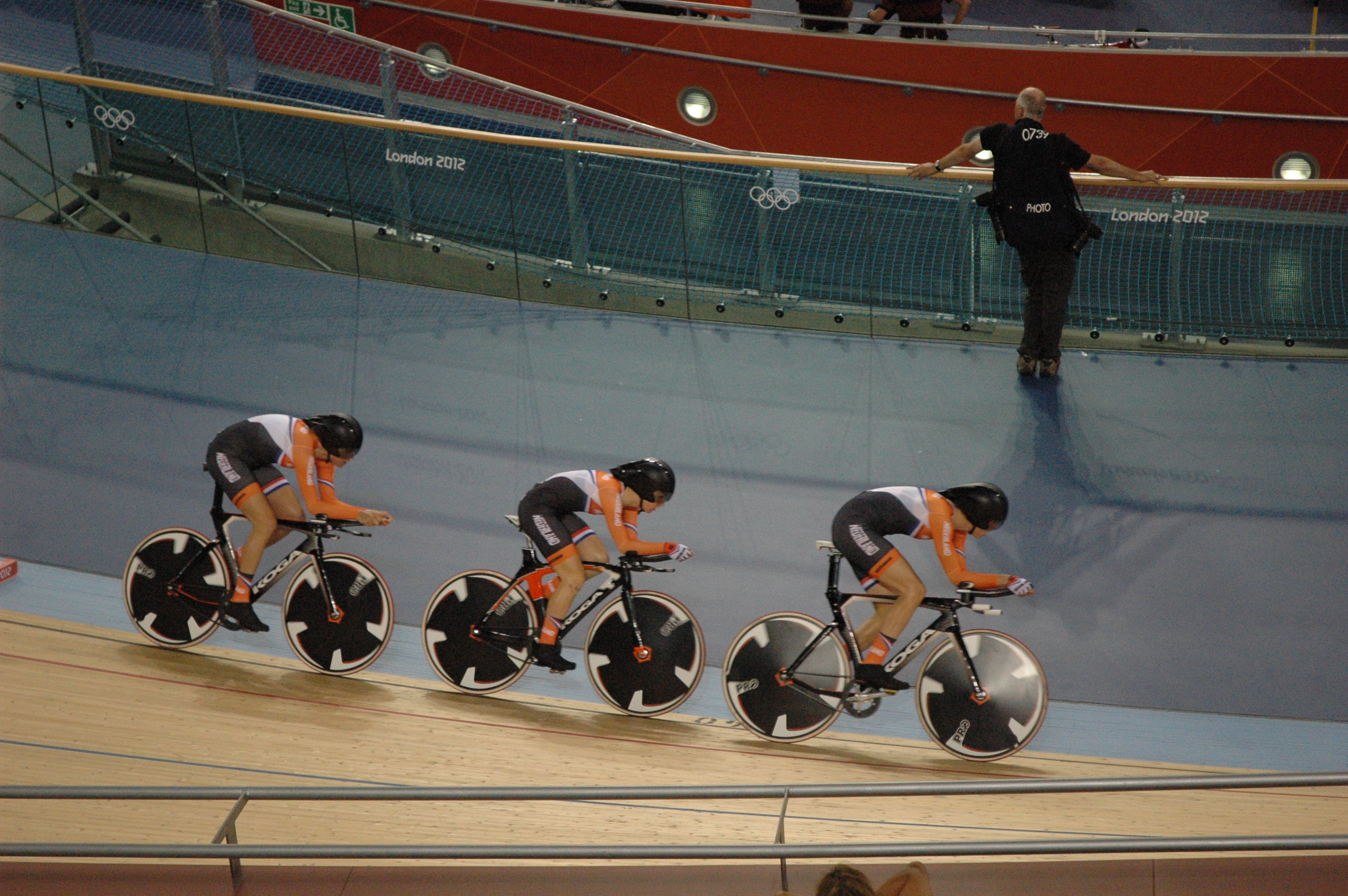 Cycling at the 2012 Summer Olympics – Women's team pursuit. The Dutch team Ellen van Dijk, Amy Pieters and Vera Koedooder (CT004, 4 August)